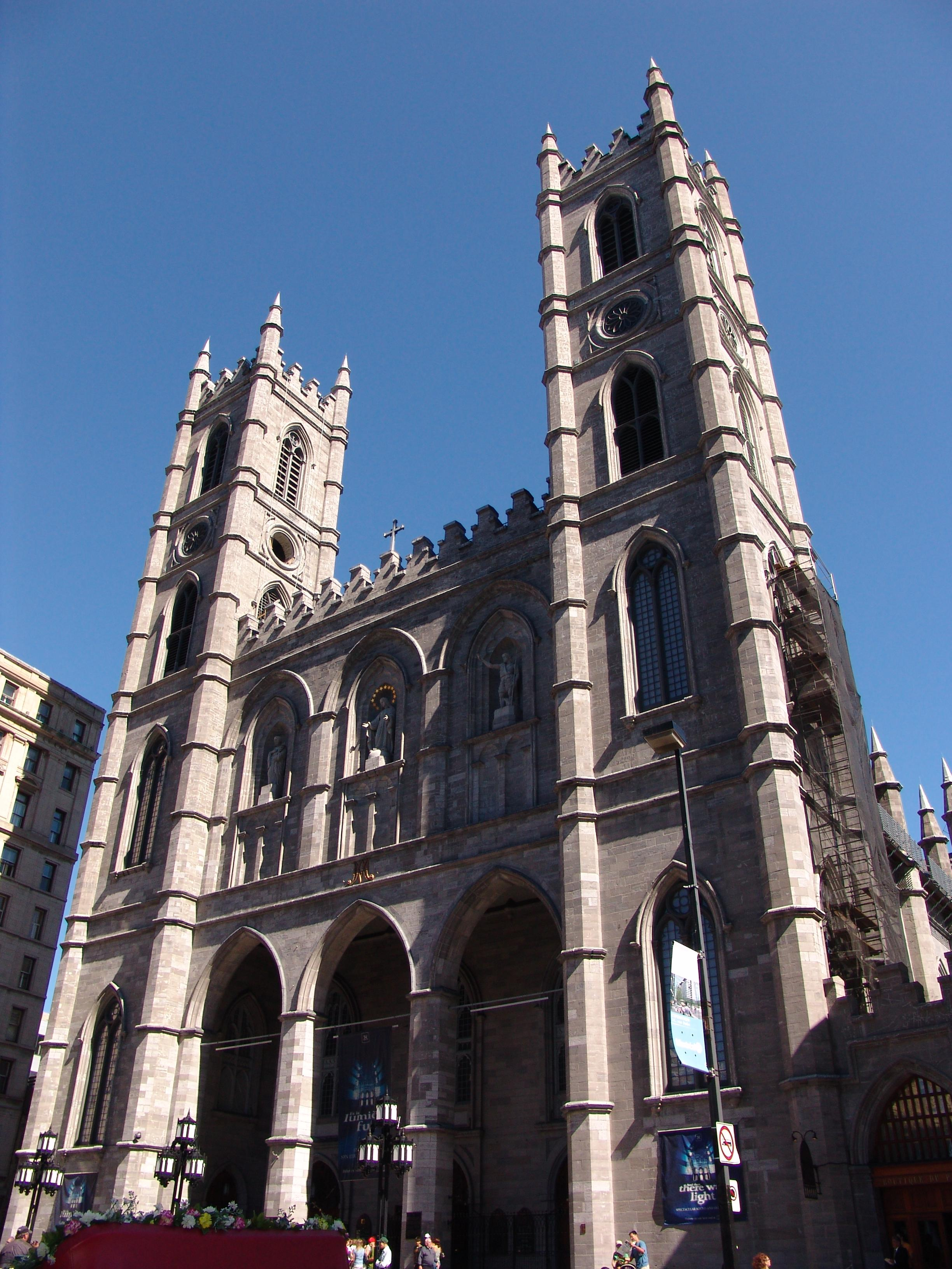 Notre Dame Basilica Montreal. Photo taken by IP Singh, Sept. 2007. Source: Taken by User:Ipsingh